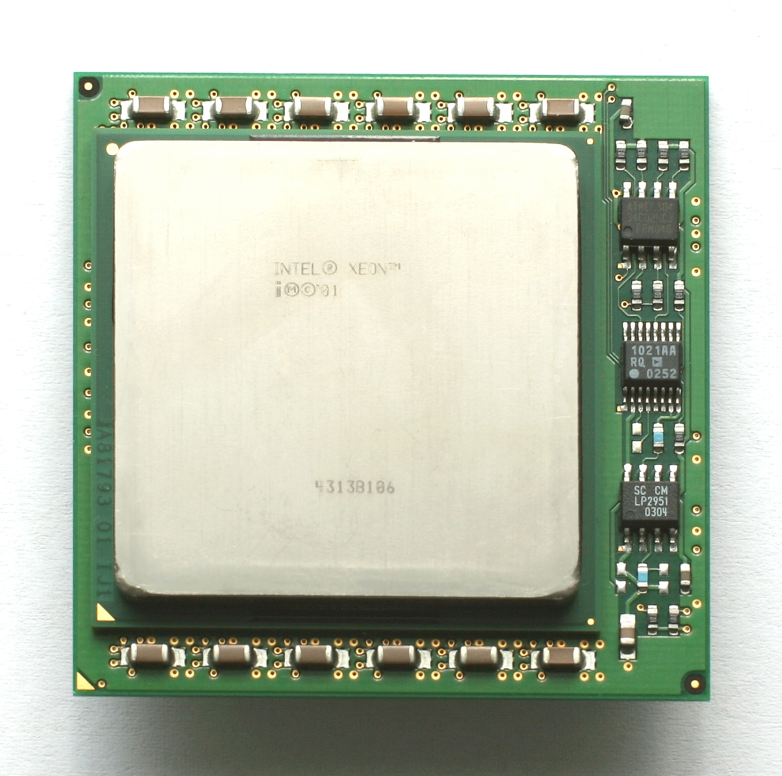 CPU Intel Xeon MP Gallatin-1024, sSpec: SL6YJ